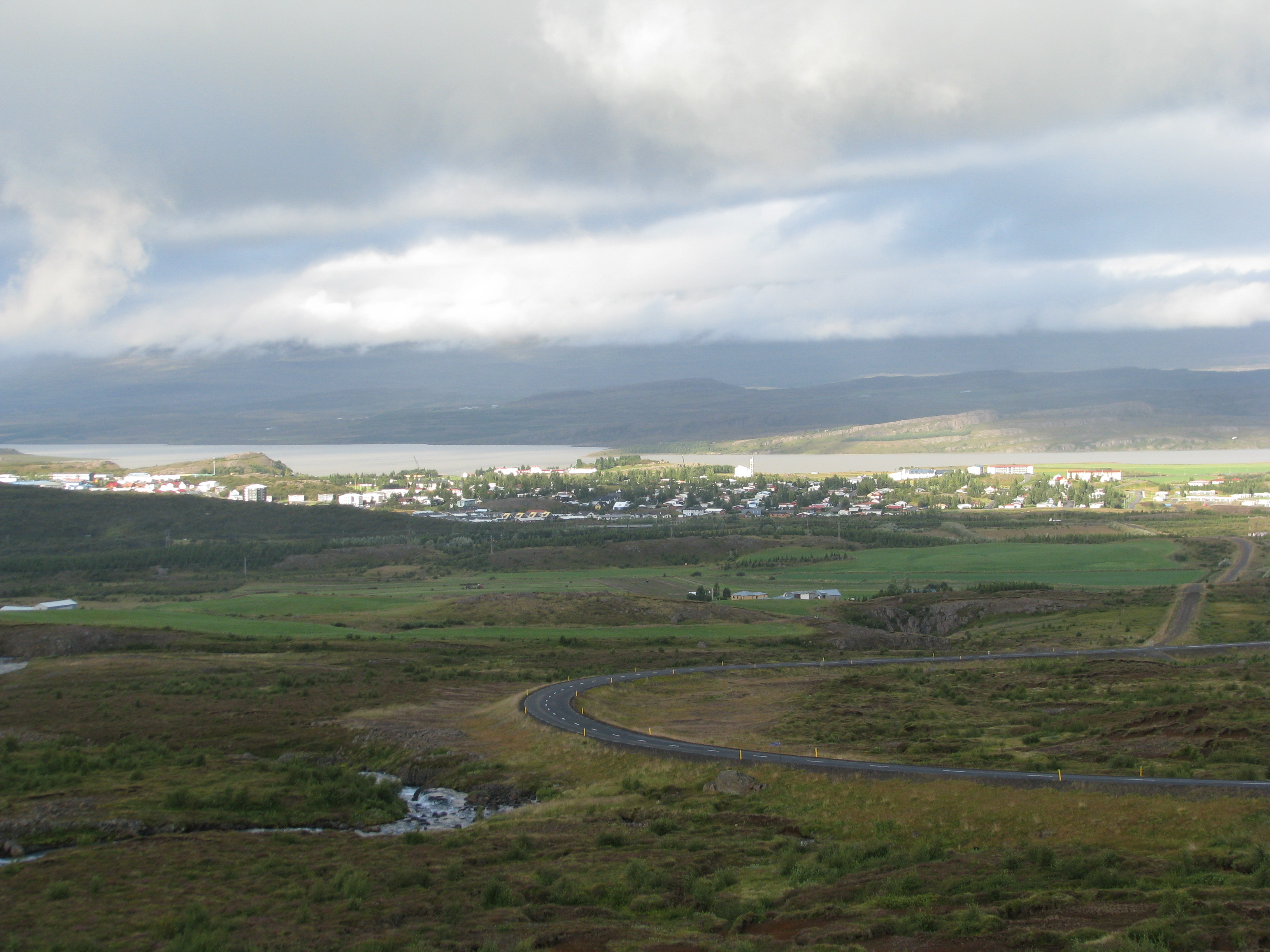 Egilsstadir, Iceland